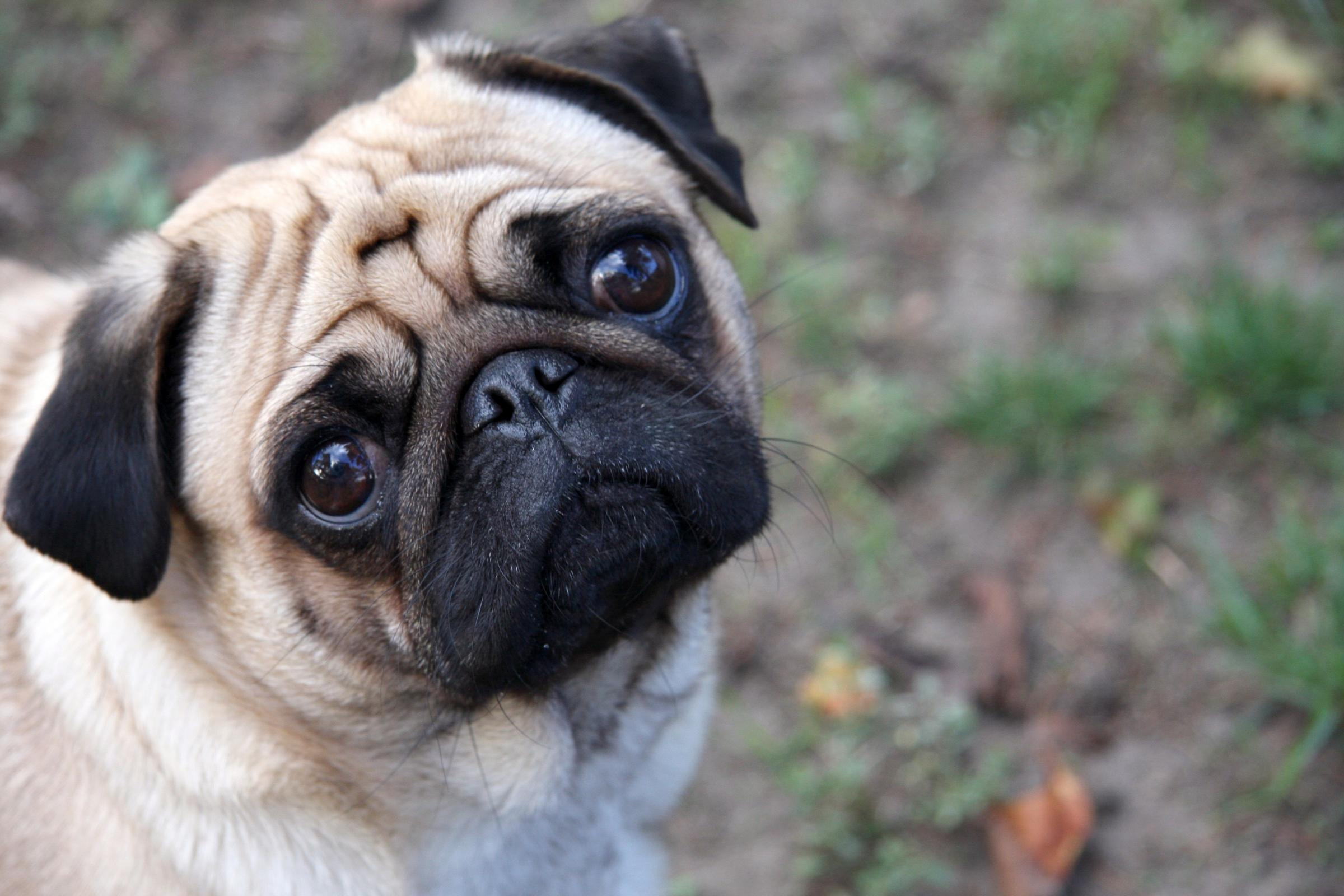 A pic of a pug